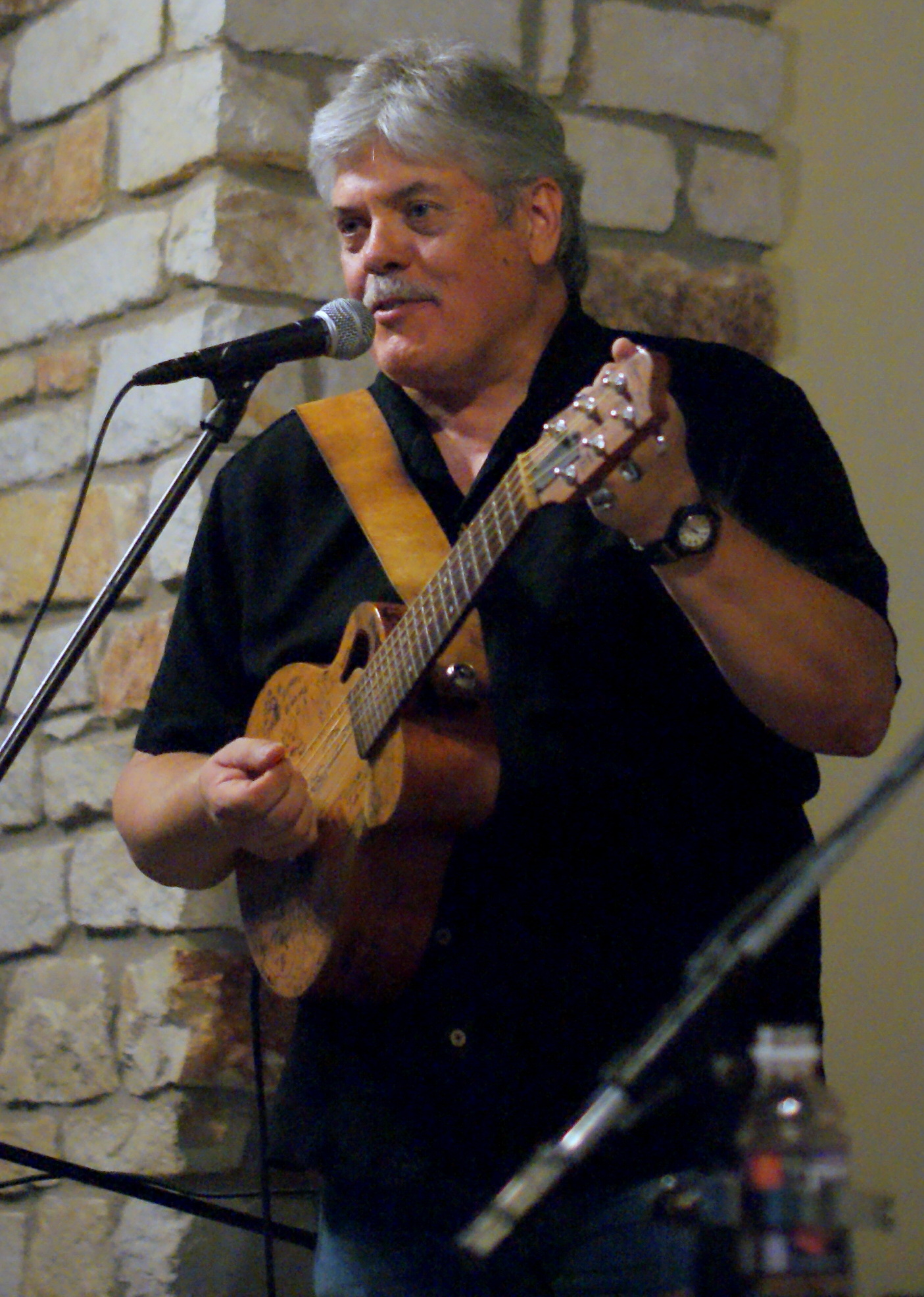 Lloyd Maines